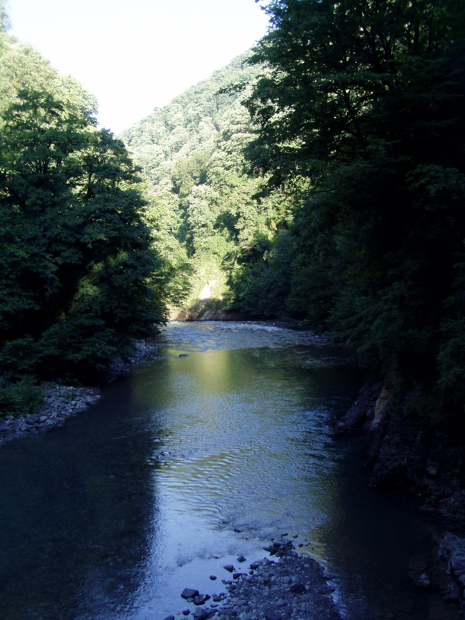 View on Sochi River